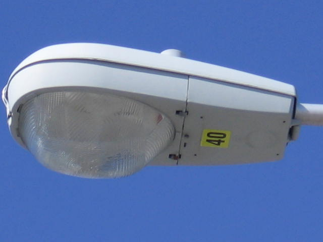 History of street lighting: General Electric M400A3 (1997–present) (150–400 watts)